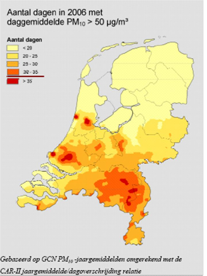 Days exceeding PM10 levels in 2006 in the Netherlands.